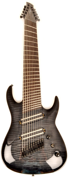 This is an example of an extended range guitar